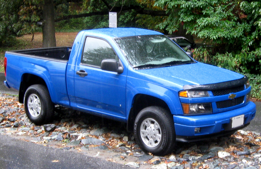 Chevrolet Colorado photographed in College Park, Maryland, USA.